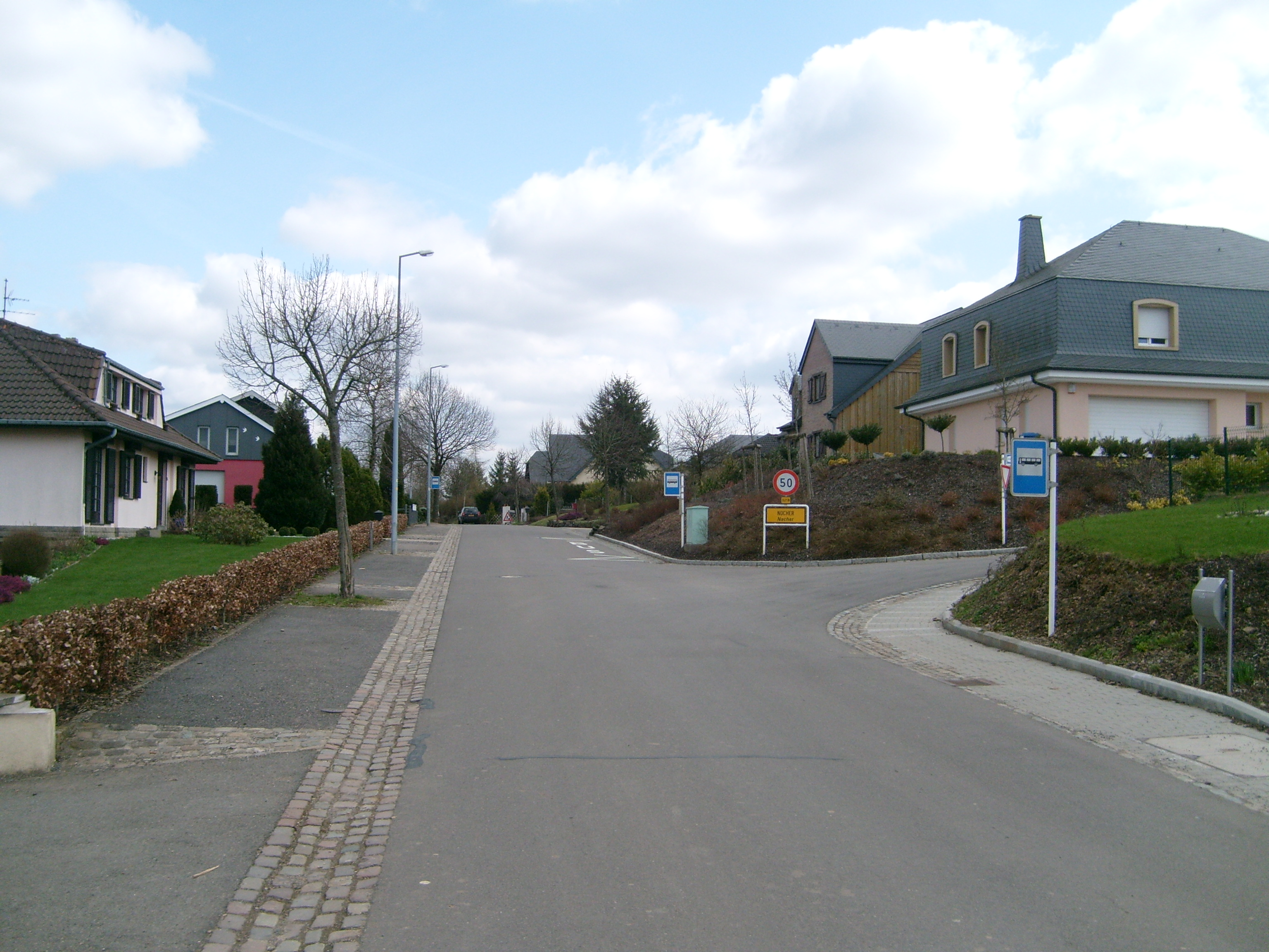 View on the main street of the village of Nocher, Oesling, Luxembourg.